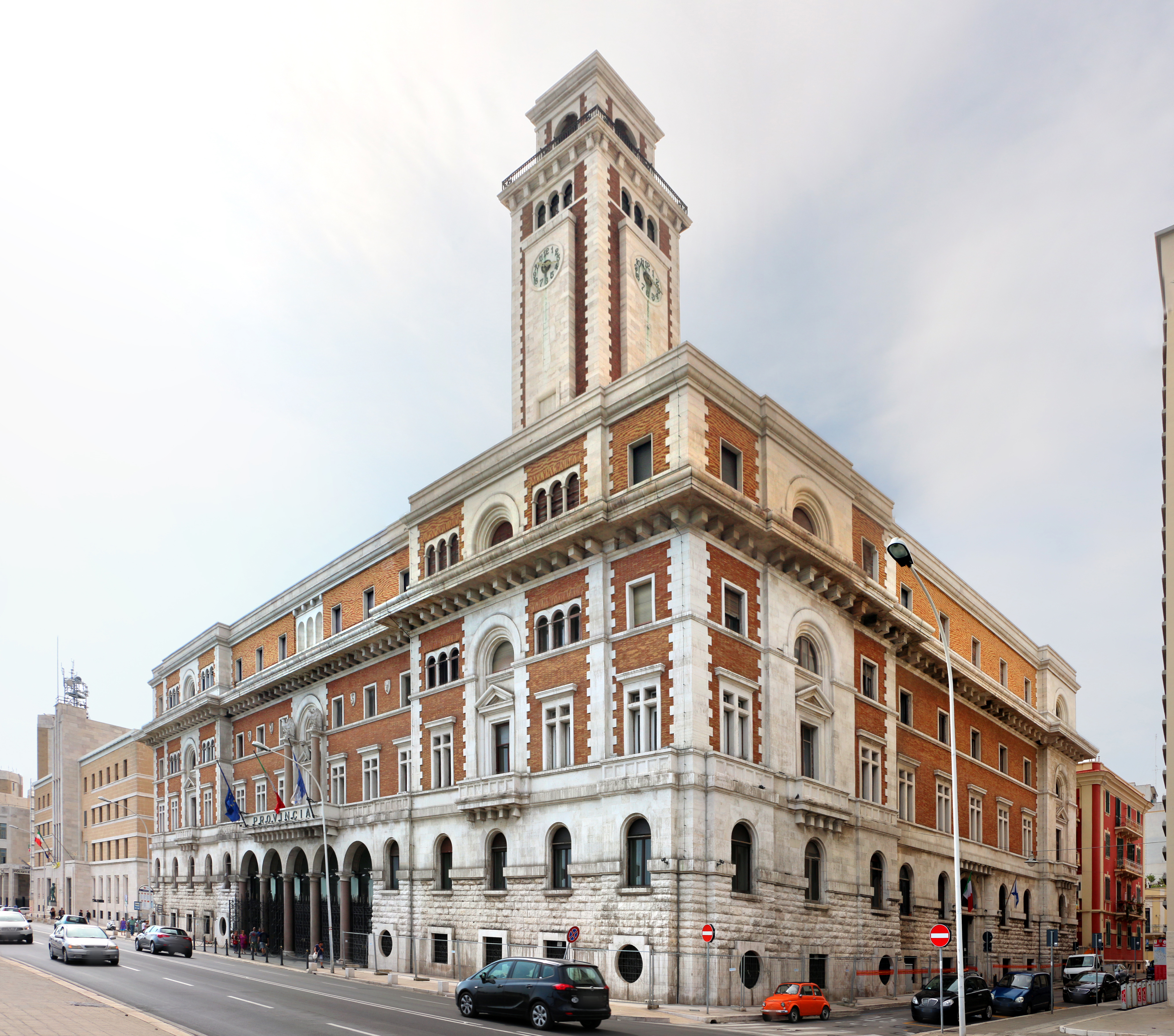 Palazzo della Provincia (Bari)